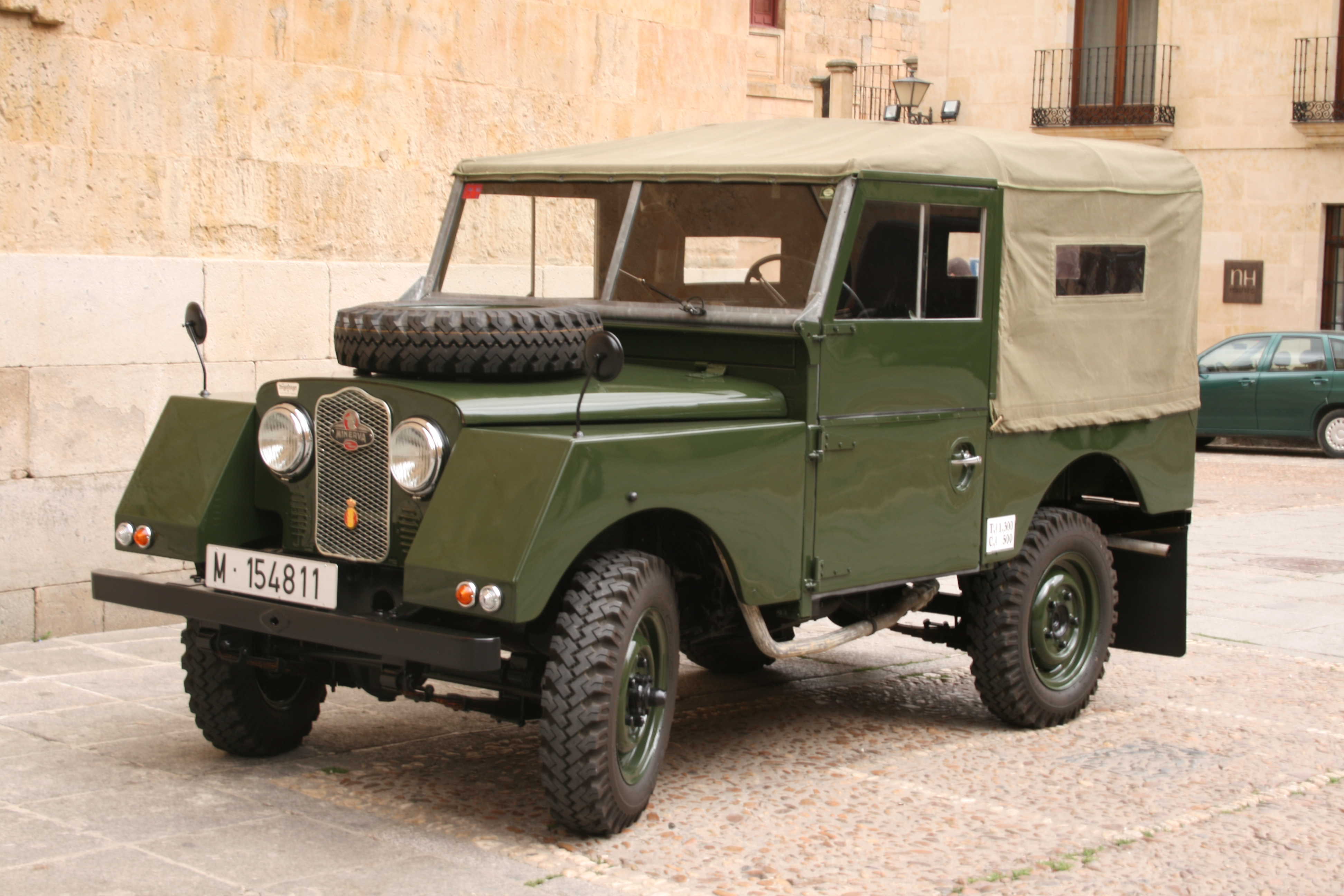 Land Rover Minerva (Societe Nouvelle Minerva S.A.)